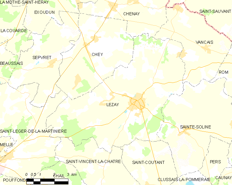 Map of French municipality Lezay